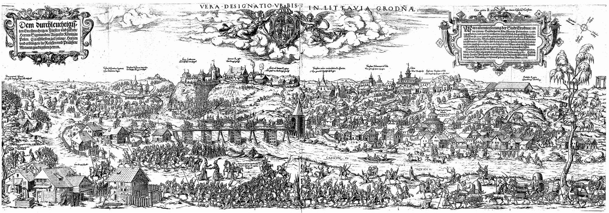 View of Grodno in XVI century